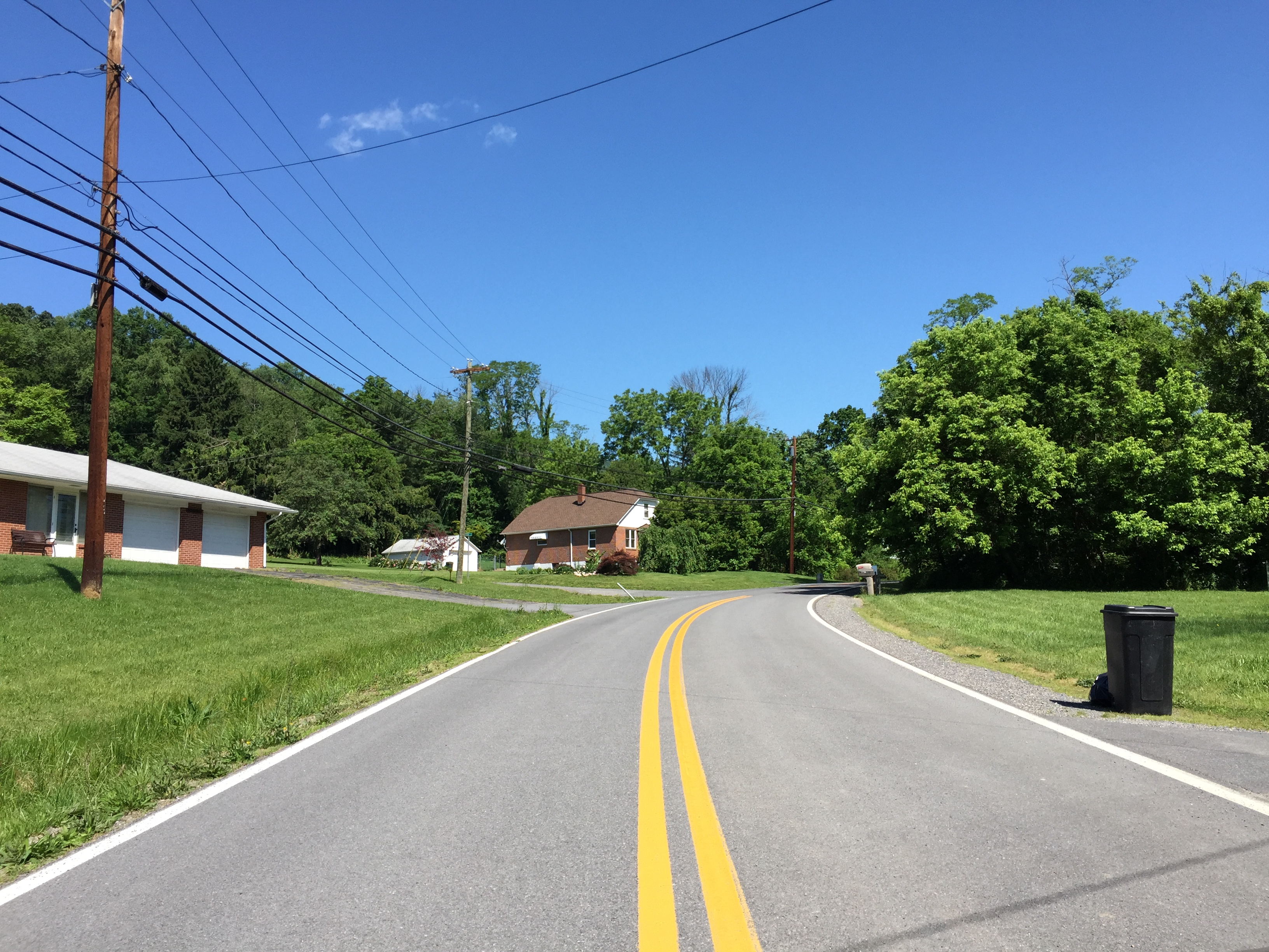 View north along Maryland State Route 951 (Old Cresaptown Road) at Oleander Drive just north of Cresaptown in Allegany County, Maryland